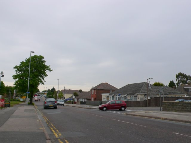 Ringwood Rd, Newtown View north up the Ringwood Rd towards its junction with the Wareham Rd. Taken from near Rosemary Rd.